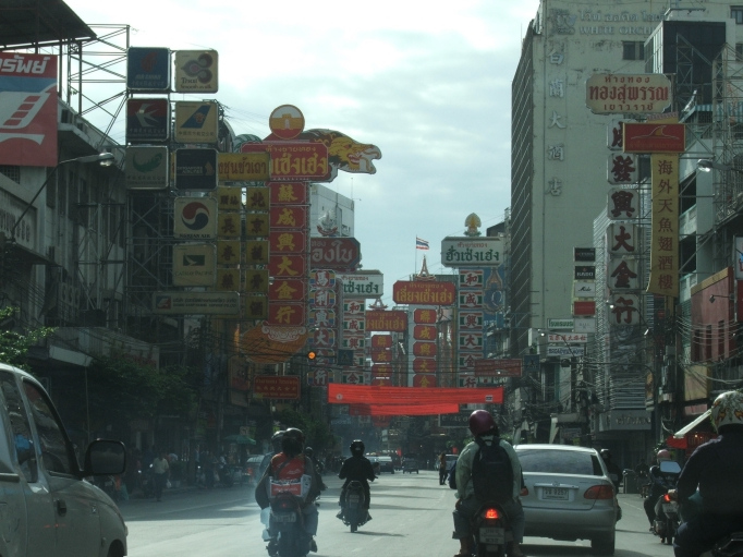 Author: Kereish; Place: China town (Yaowarat Road), Bangkok, Thailand; Date: August 2005